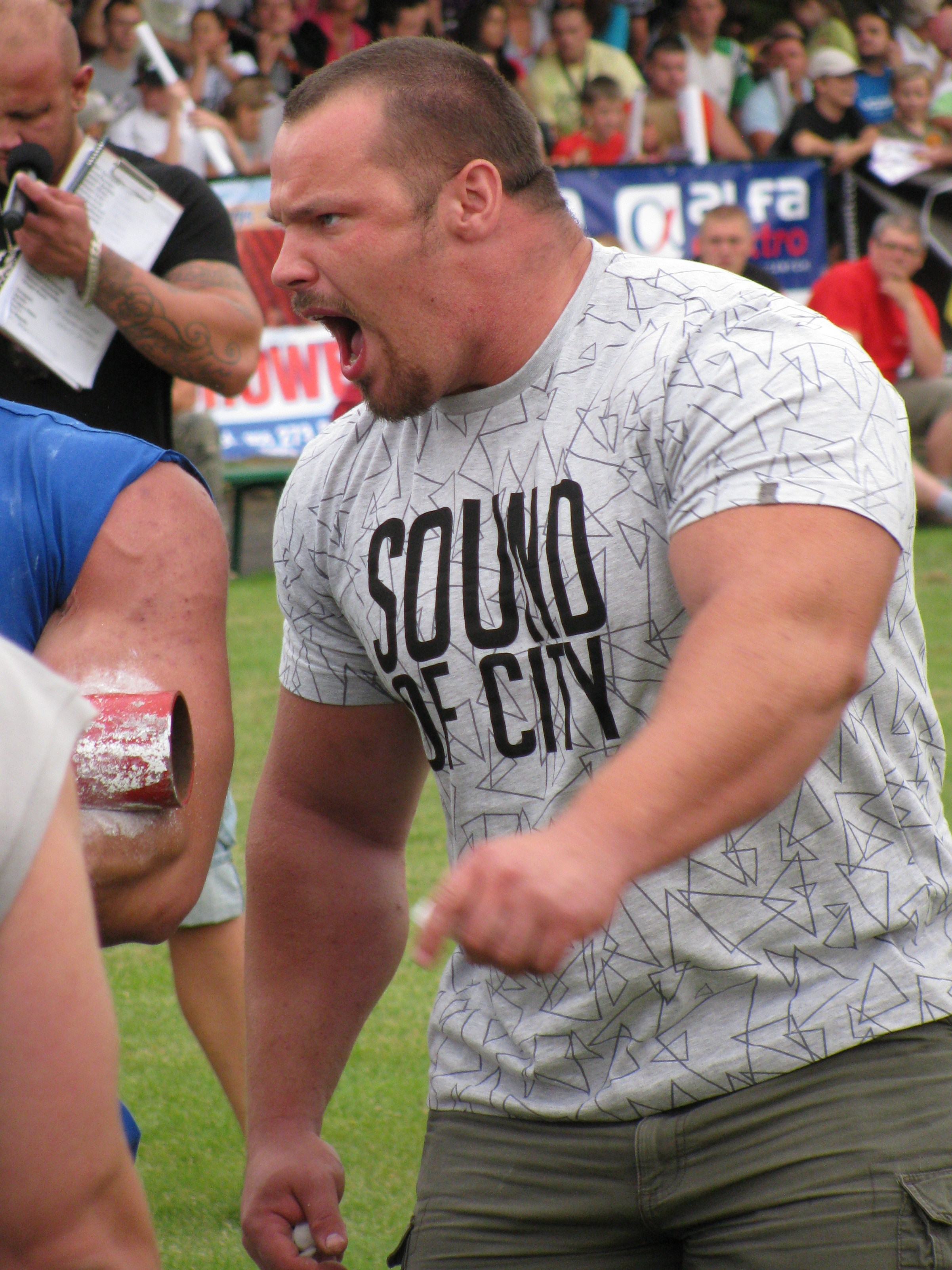 Michał Szymerowski - a strength athlete from Poland. As a trainer.